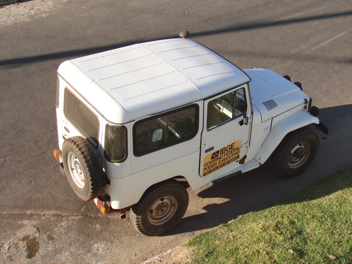 Toyota Bandeirante (Land Cruiser 40) from the Brazilian Institute of Geography and Statistics